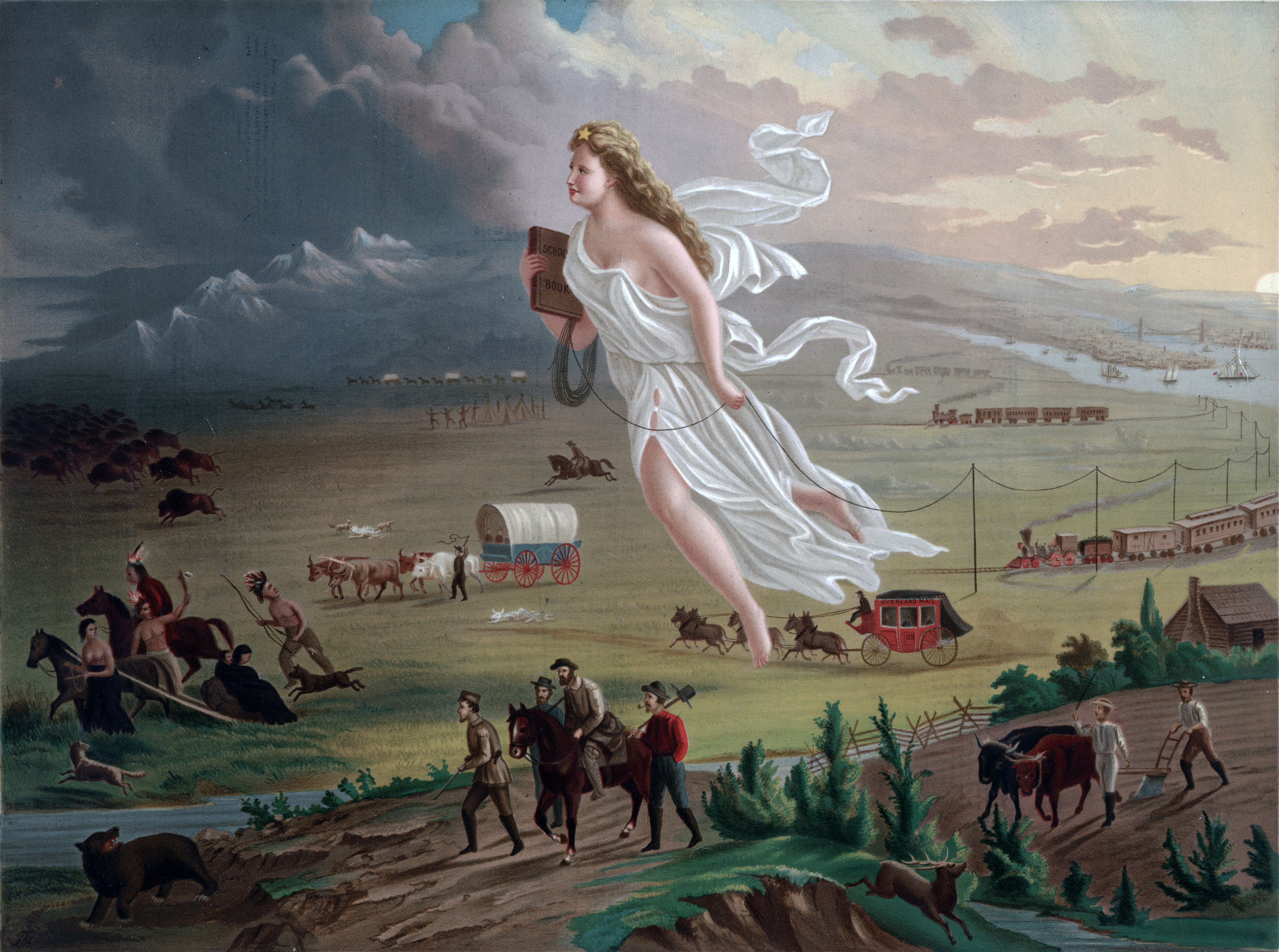 This painting shows "Manifest Destiny" (the belief that the United States should expand from the Atlantic to the Pacific Ocean. In 1872 artist John Gast painted a popular scene of people moving west that captured the view of Americans at the time. Called "Spirit of the Frontier" and widely distributed as an engraving portrayed settlers moving west, guided and protected by Columbia (who represents America and is dressed in a Roman toga to represent classical republicanism) and aided by technology (railways, telegraph), driving Native Americans and bison into obscurity. The technology shown in the picture is used to represent the outburst of innovation and invention of modern technology. It is also important to note that Columbia is bringing the "light" as witnessed on the eastern side of the painting as she travels towards the "darkened" west.